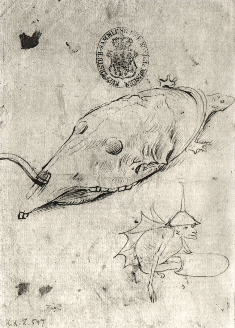 Reverse of a two-sided drawing. For the front, see File:TwoMonstersBosch.jpg.